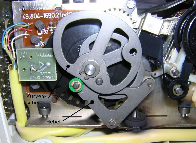 Cam disc of a printing calculator Olympia CP 400